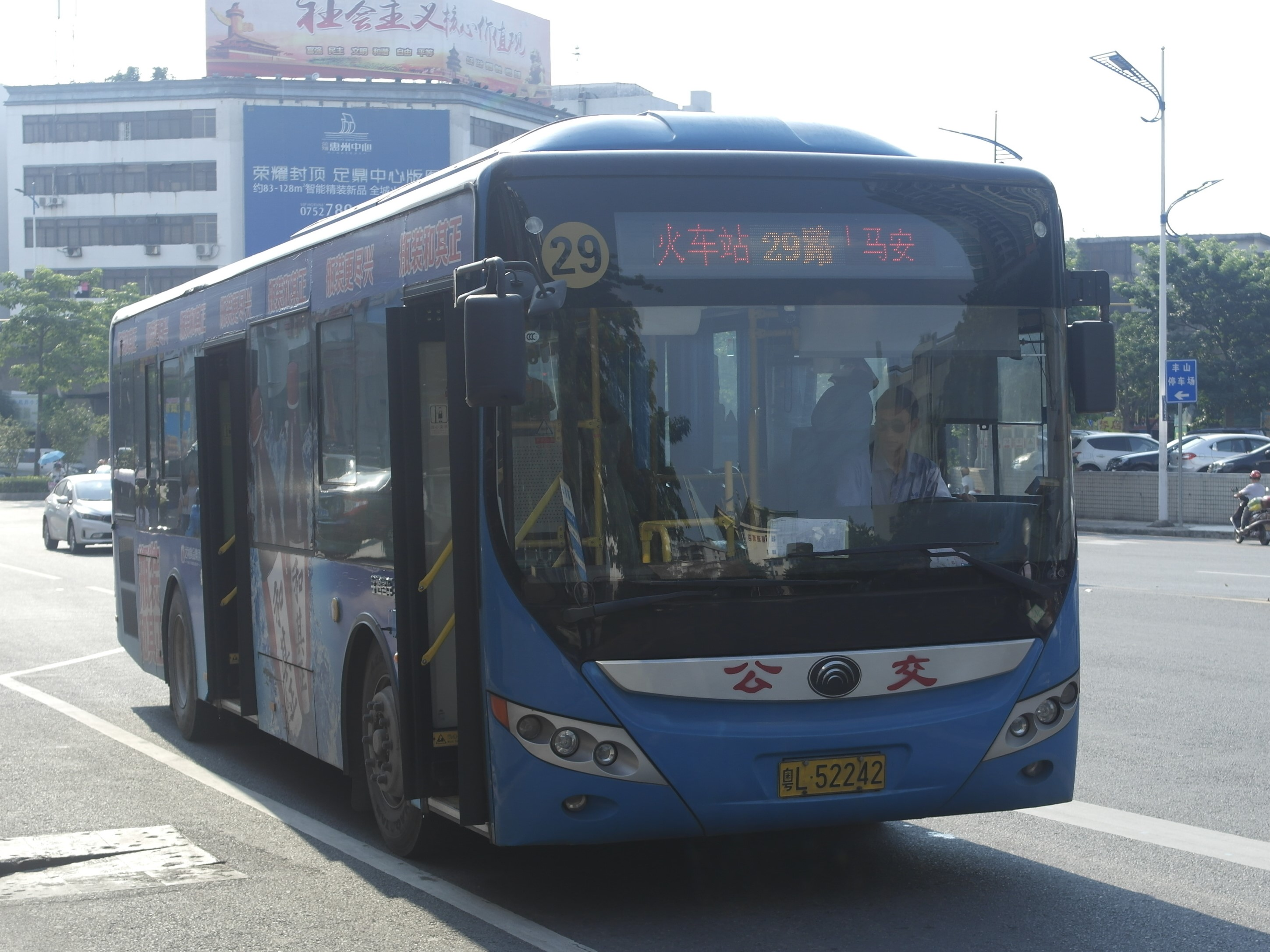 A Yutong ZK6105CHEVNPG4 bus which is powered by liquefied natural gas and electricity (plug-in), enlisting on Huizhou City Bus Corporation Route 29. The plate number of this bus is "粤L•52242" . The photo was taken at the bus stop of Puqian.